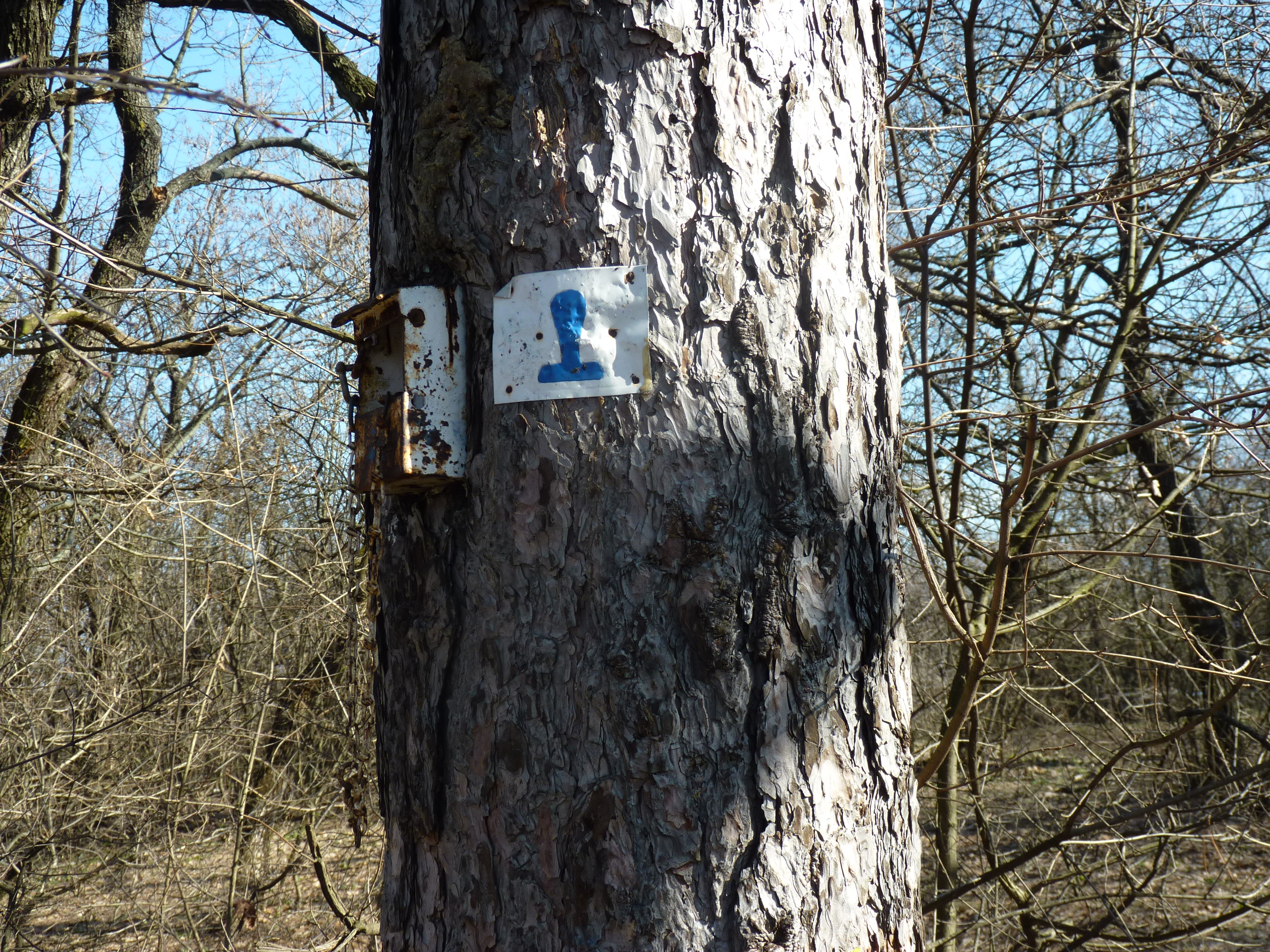 Országos Kéktúra stamp, Kevély-nyereg